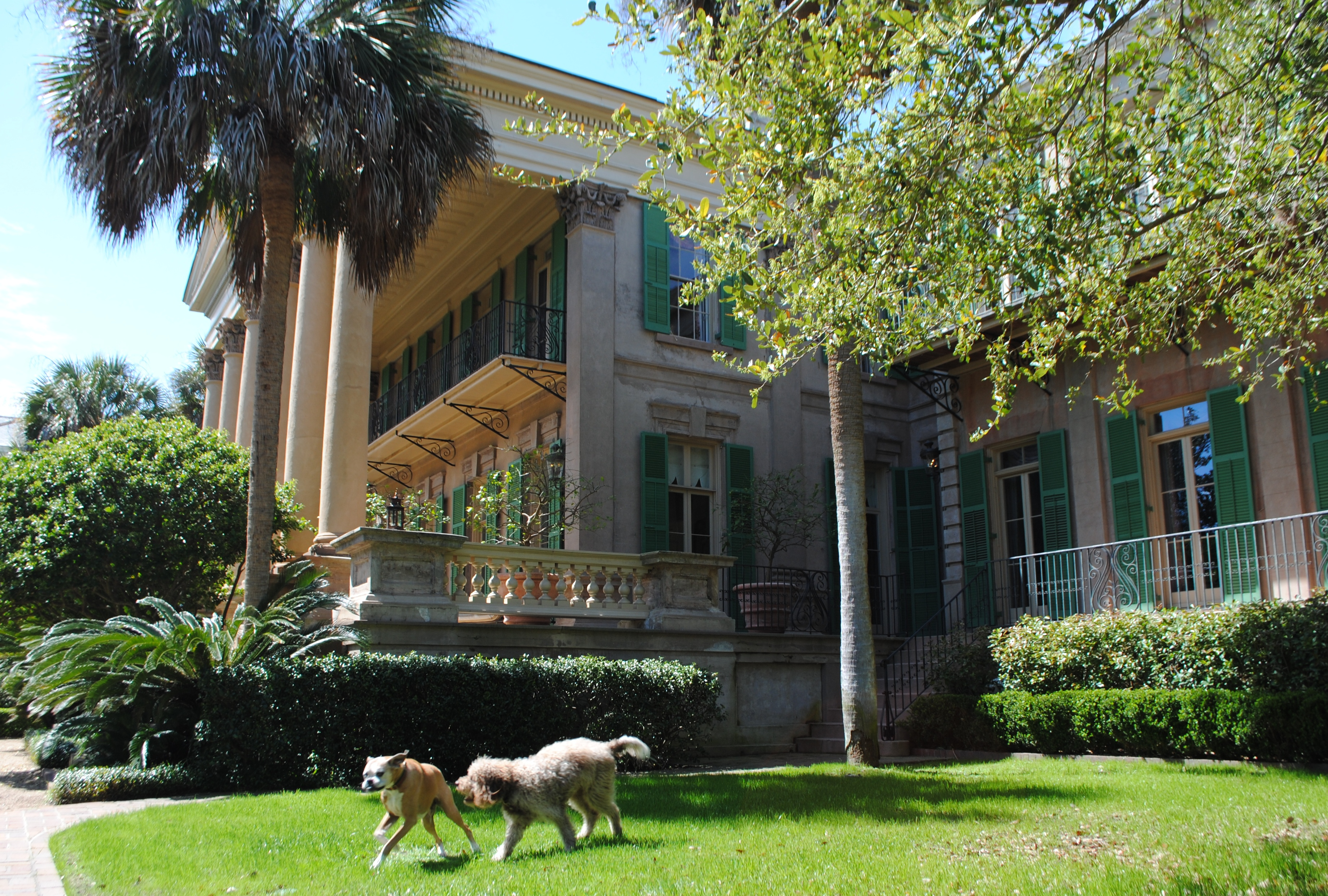 Dogs play in the yard of the historic Isaac Jenkins Mikell House in Charleston, SC.